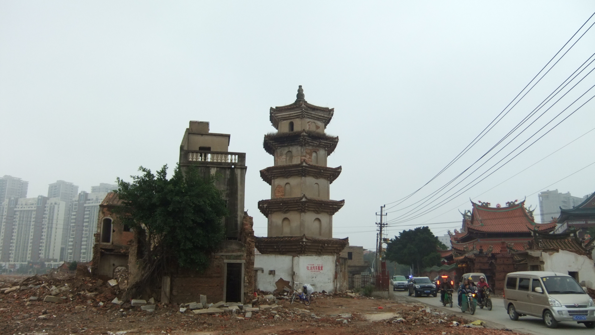 Shuixin Zen Temple (Shuixin Chan Si) in Anhai Town, near the eastern end of the famous Anping Bridge. The area to the east of the temple has recently been cleared, the old-fashioned neighborhood that used to be there being comletely demolished, presumably for the sake of new development. Just a single pagoda stands in that empty expanse now.